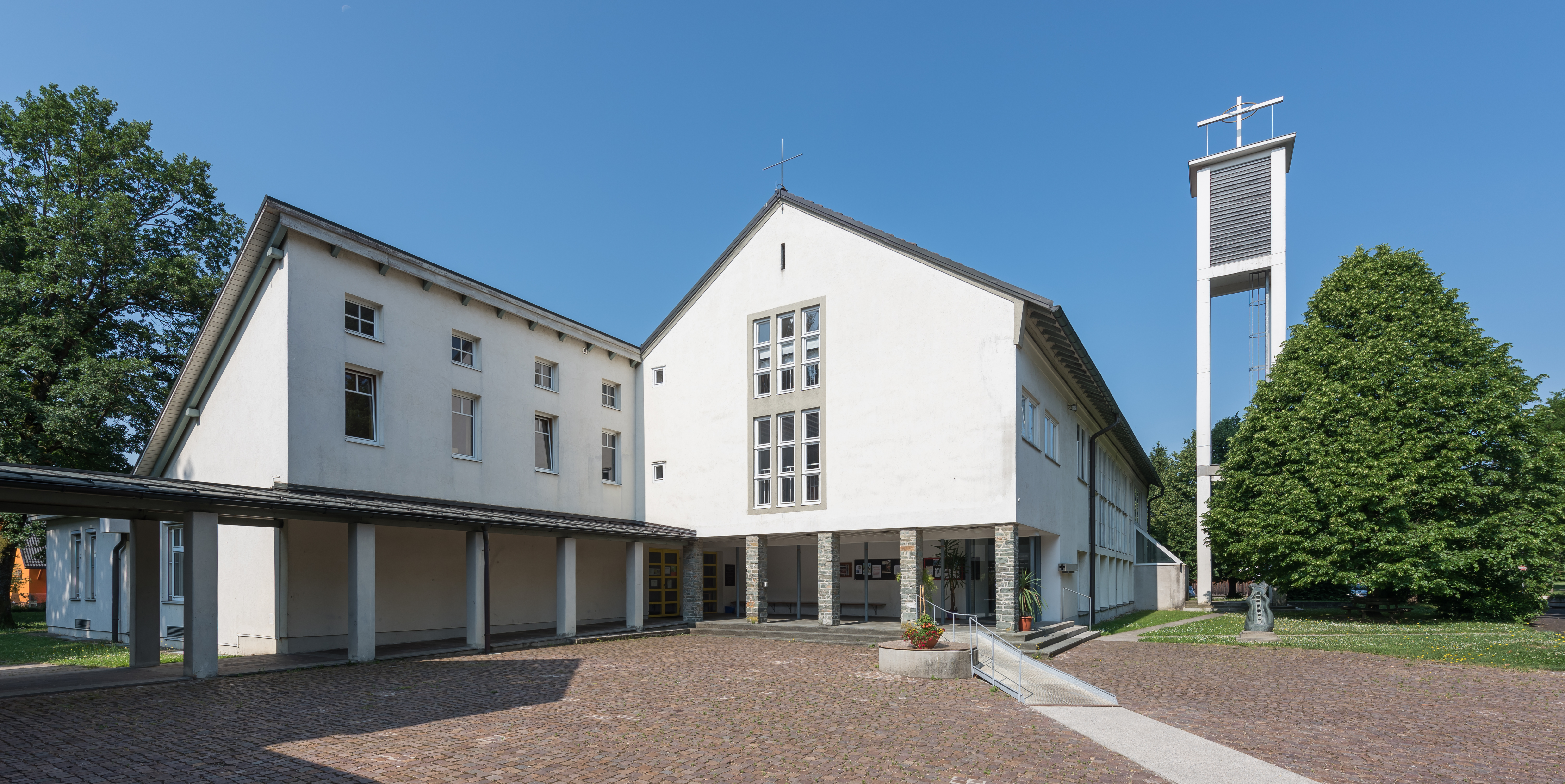 Roman Catholic parish church Sacred Heart of Jesus on the Afritsch-Street #76 in Welzenegg, 10th district "Sankt Peter" of the Carinthian capital Klagenfurt on the Lake Woerth, Carinthia, Austria, EU